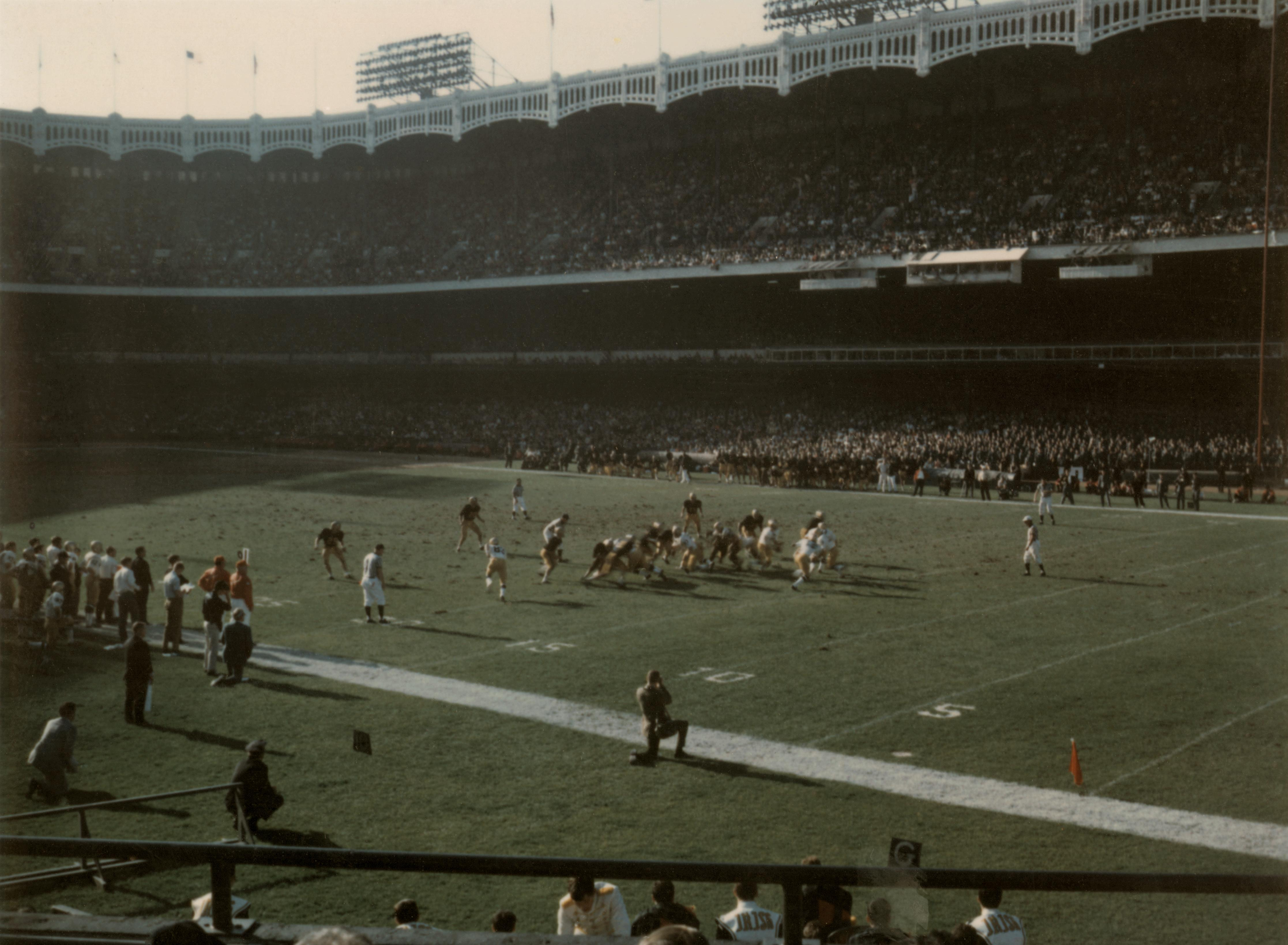 Notre Dame - Army Yankee Stadium, New York 11 Oct 1969